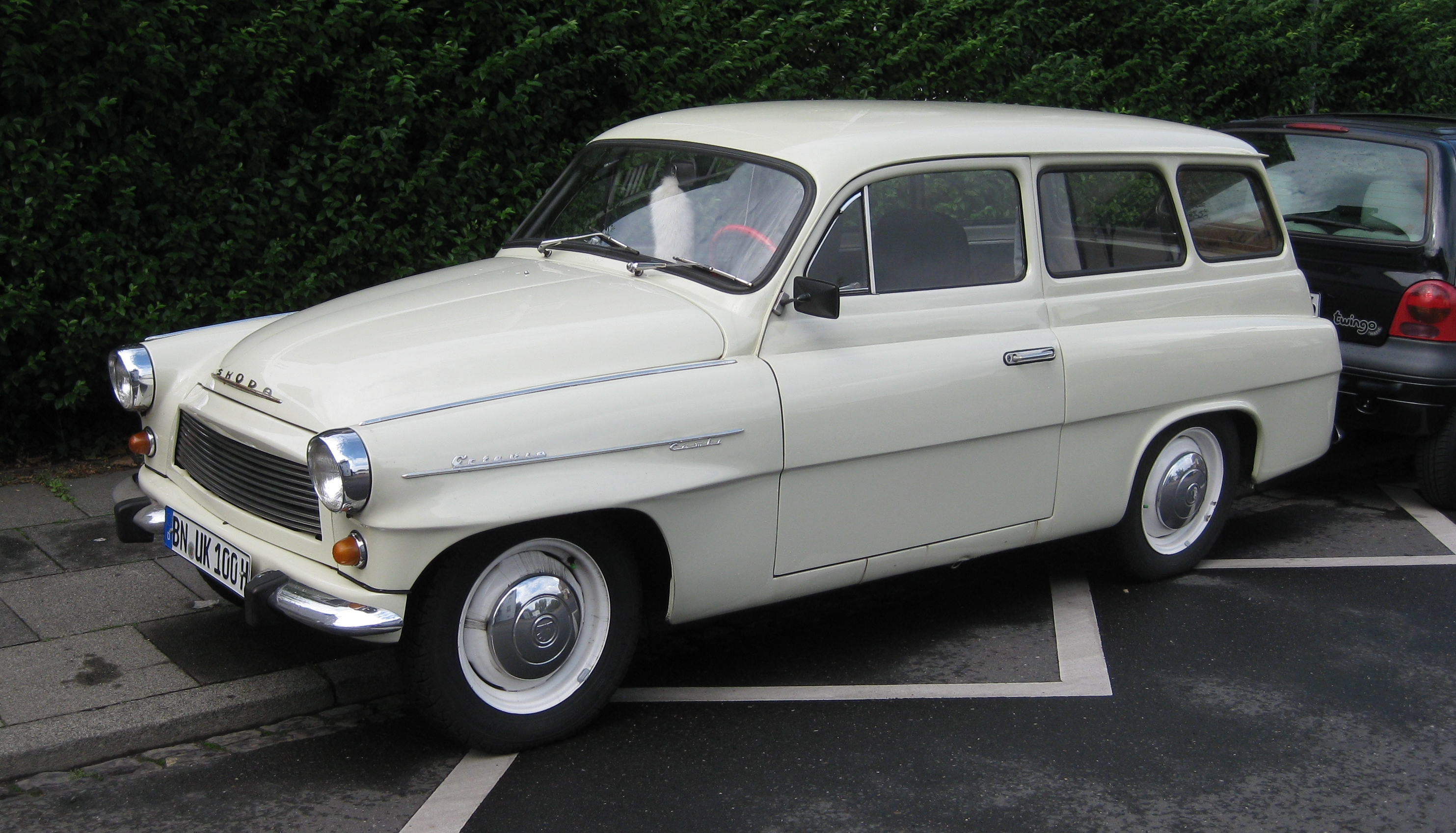 Škoda Octavia Combi (1959 - 1971), model year 1970, in Bonn/Germany